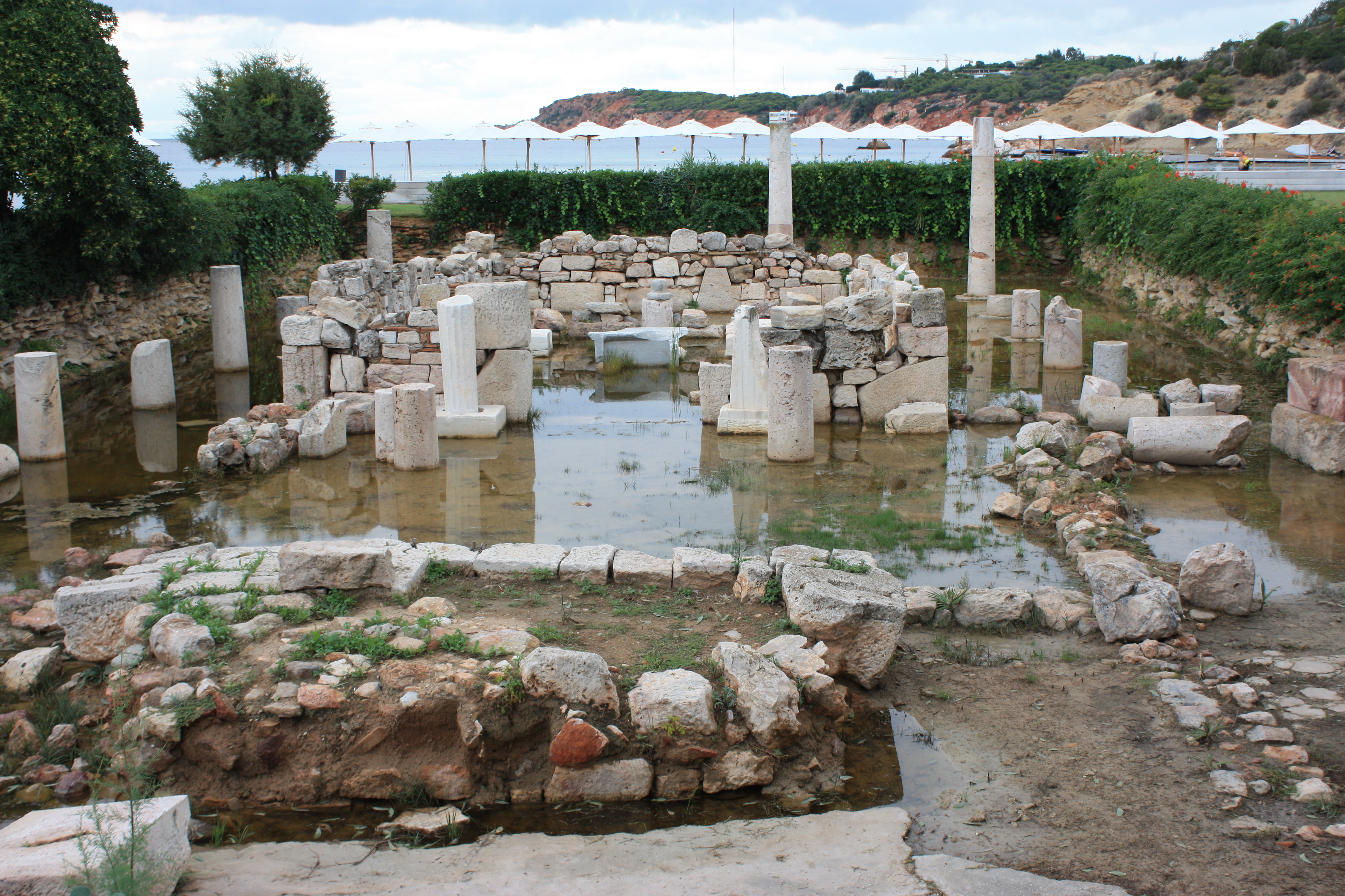 TempleofApolloZoster,Vouliagmeni,Athens,Greece